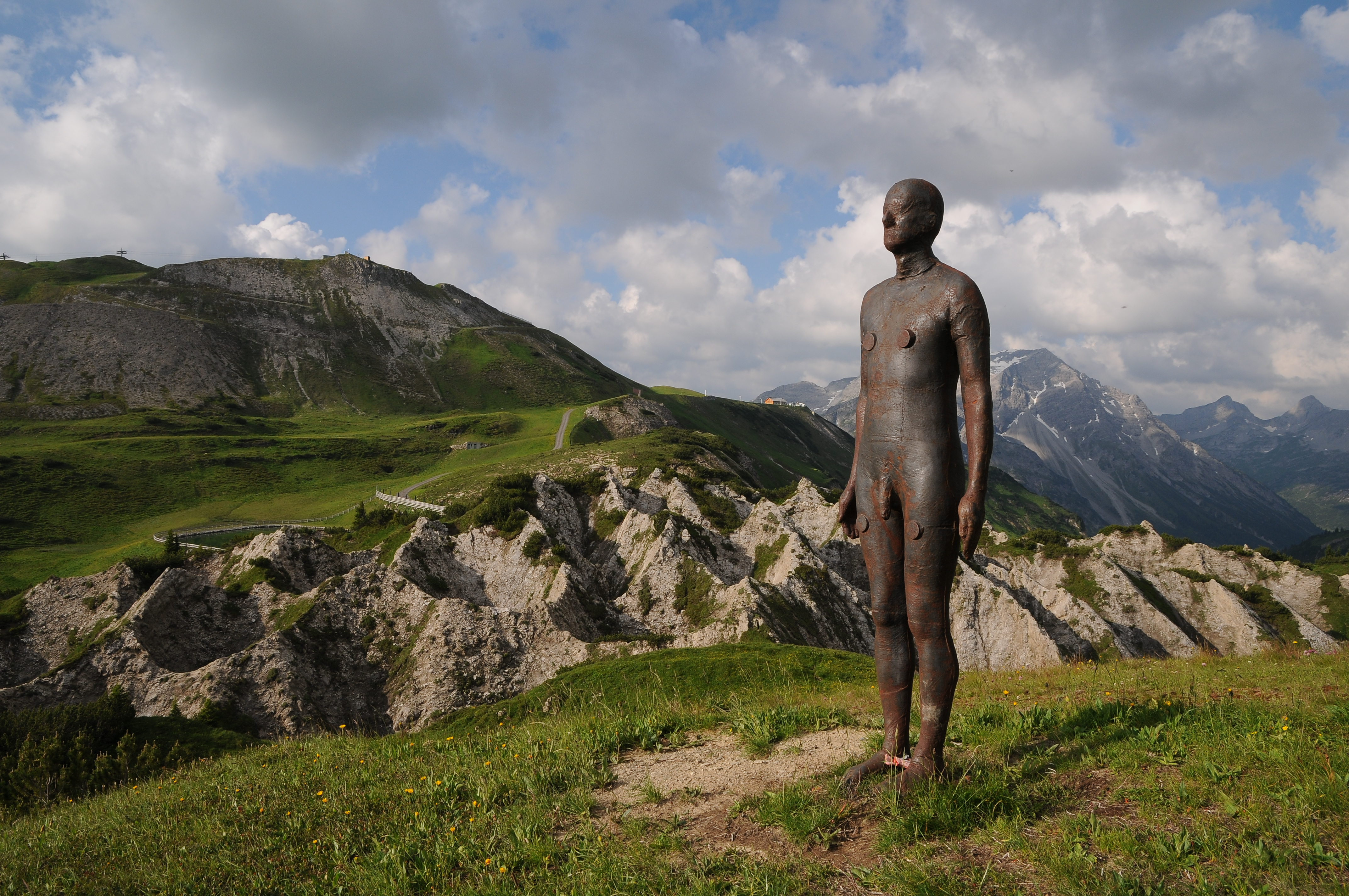 A sculpture by British artist Antony Gormley in the "Obere Gipslöcher" nature reserve. It and many other scuptures were part of a two-year art installation called Horizon Field, made by the artist in collaboration Kunsthaus Bregenz.